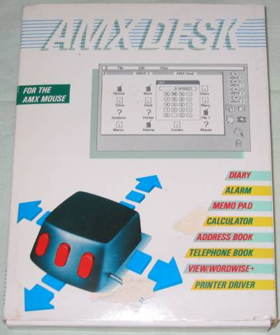 AMX desk box.AMX Desk made a basic WIMP GUI available with standard tools: diary, alarm, memo pad, calculator, address book, word processor and printer.